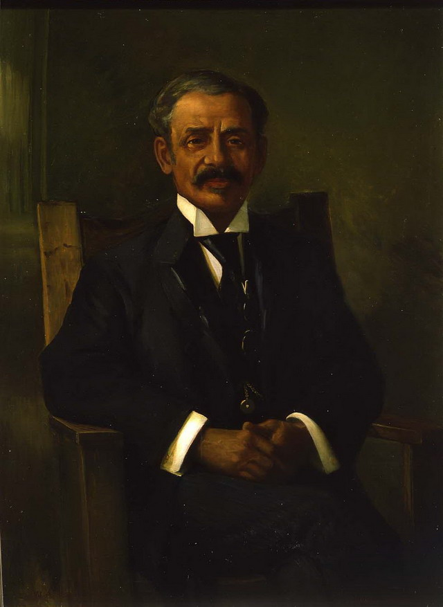 Portrait of William Peyton Hubbard (1842 - 1935), the first African-Canadian city councillor in Toronto, Canada (first elected in 1894).